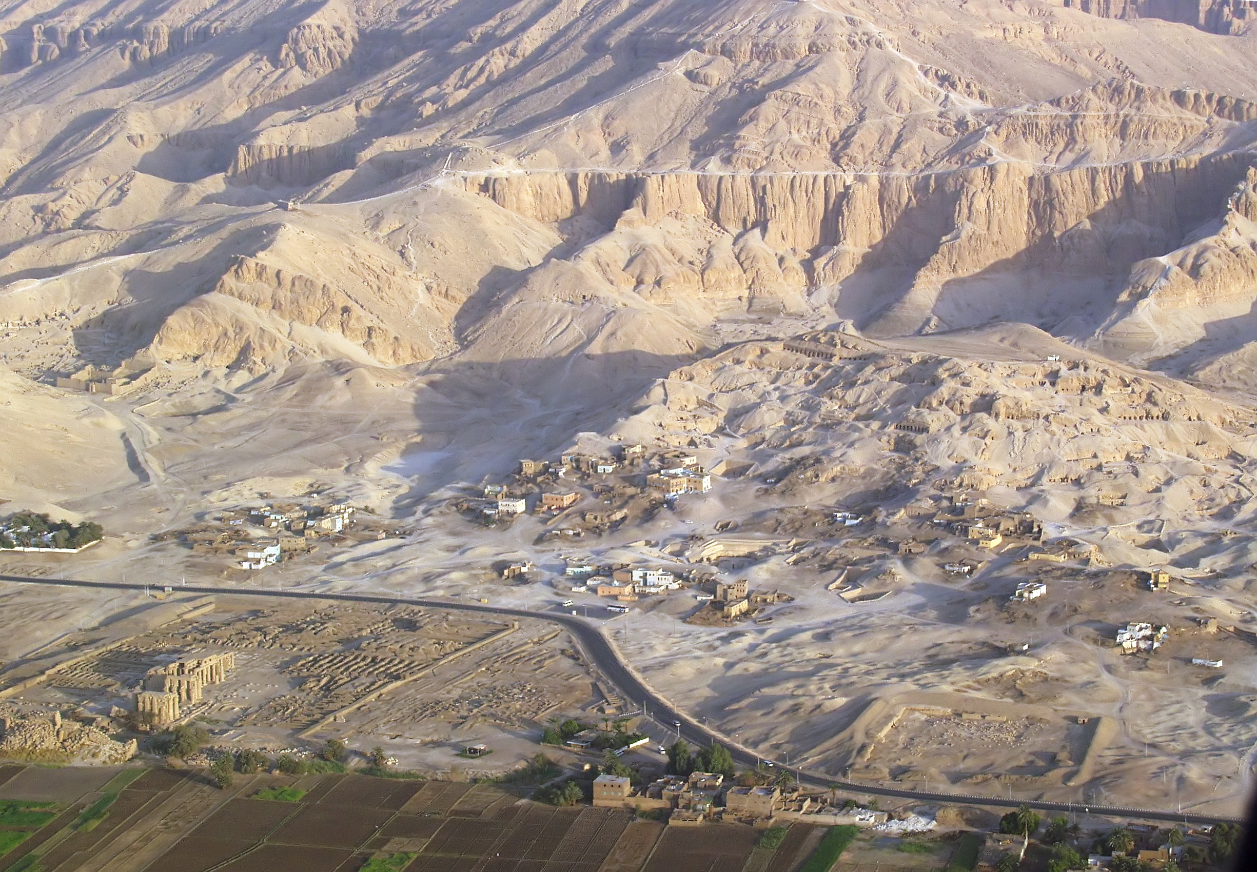 Aerial view of the Tombs of the Nobles. The buildings belong to Sheikh Abd el-Qurna. Lower left corner: Ramesseum (pictures on Commons: Ramesseum.